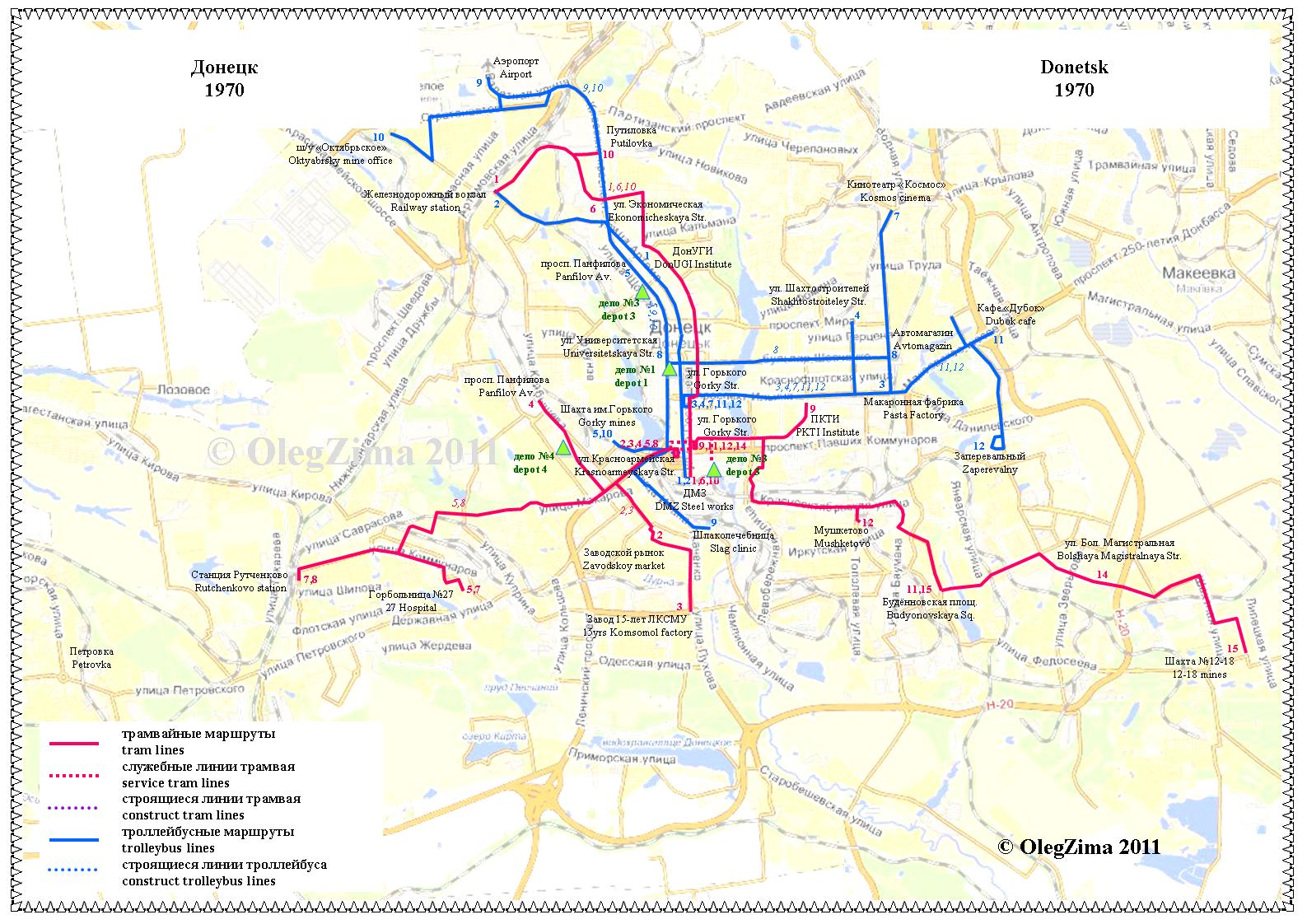 Transport map of Donetsk city at 1970